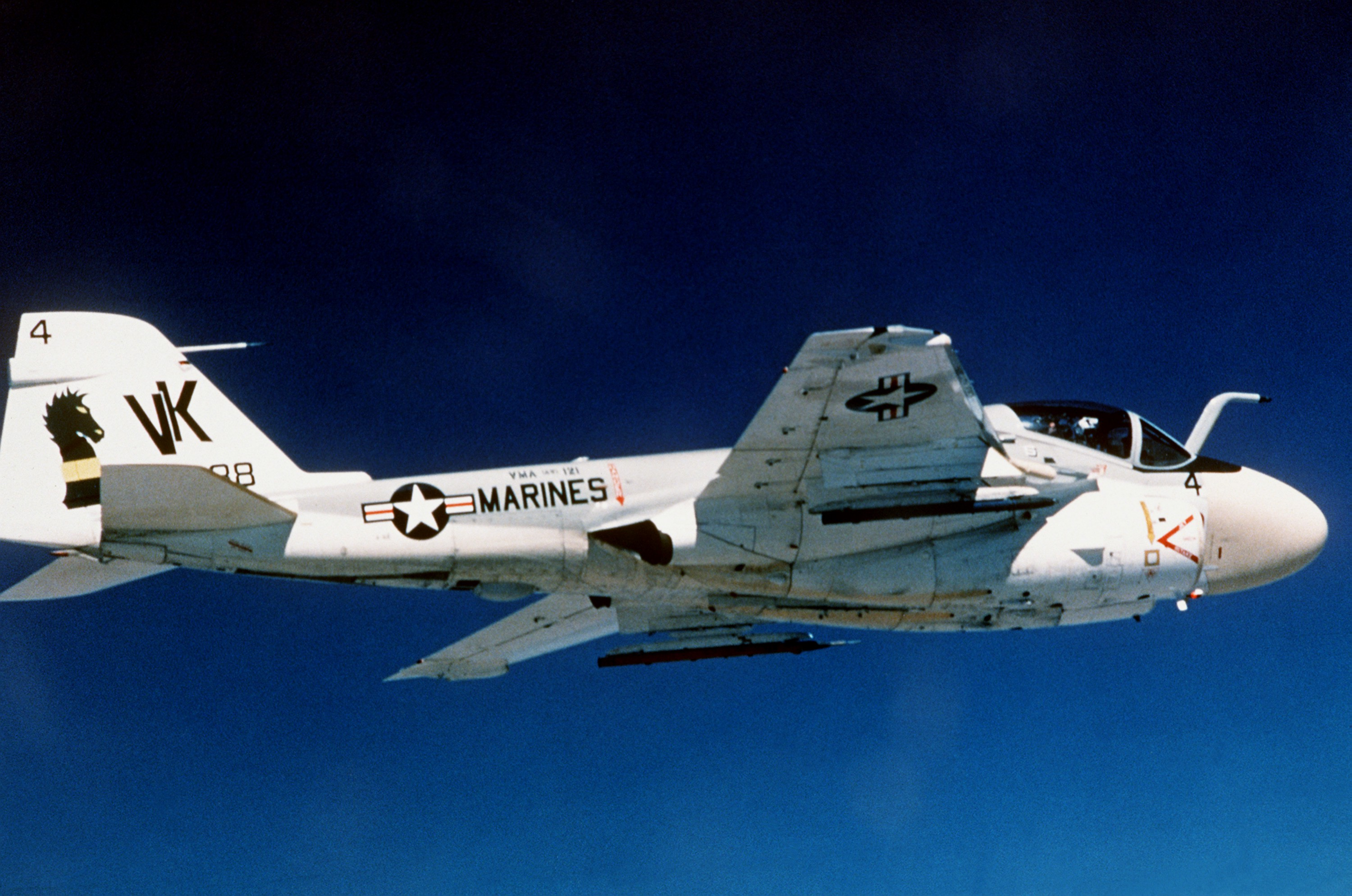 A U.S. Marine Corps Grumman A-6E Intruder (BuNo 155638) of Marine All-Weather Attack Squadron 121 (VMA(AW)-121) "Green Knights" in flight on 23 November 1981.